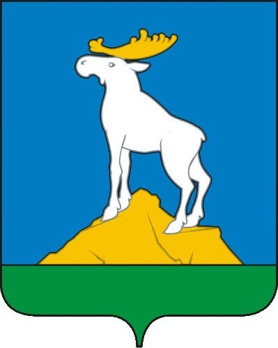 Nizhnie Sergi (Sverdlovsk oblast), coat of arms